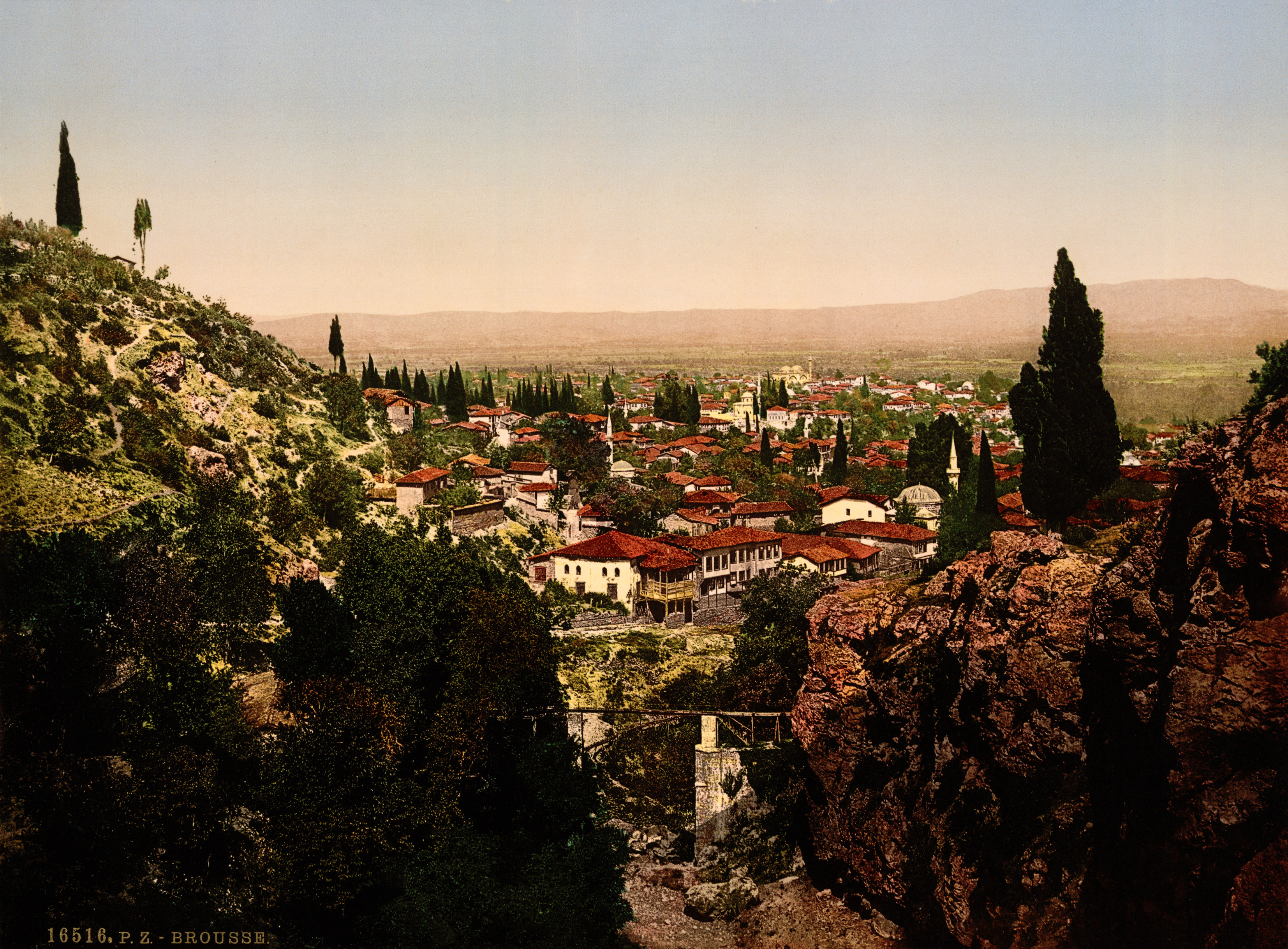 Bursa Turkey